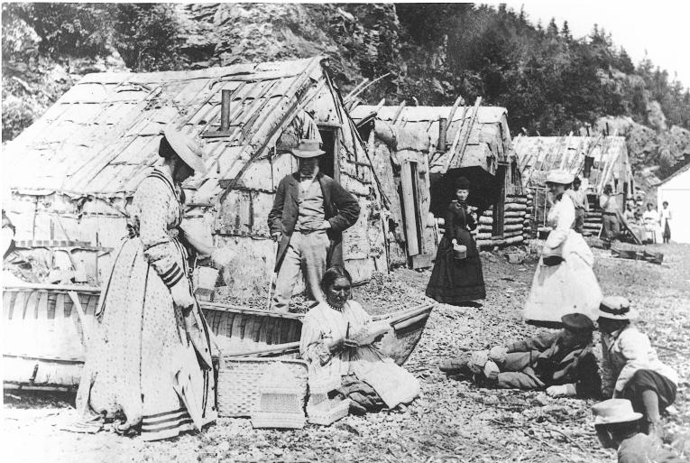 Photograph Aboriginal bark huts and basket maker, Murray Bay, QC, about 1890, Livernois, Silver salts on paper - Albumen process - 15 x 20 cm